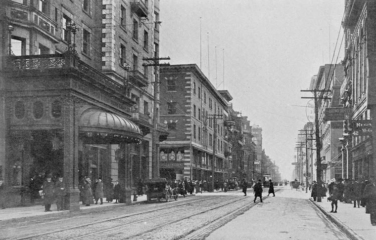 A view of King Street looking west from Toronto Street (Toronto, Canada). The King Edward Hotel is on the left of the photograph.